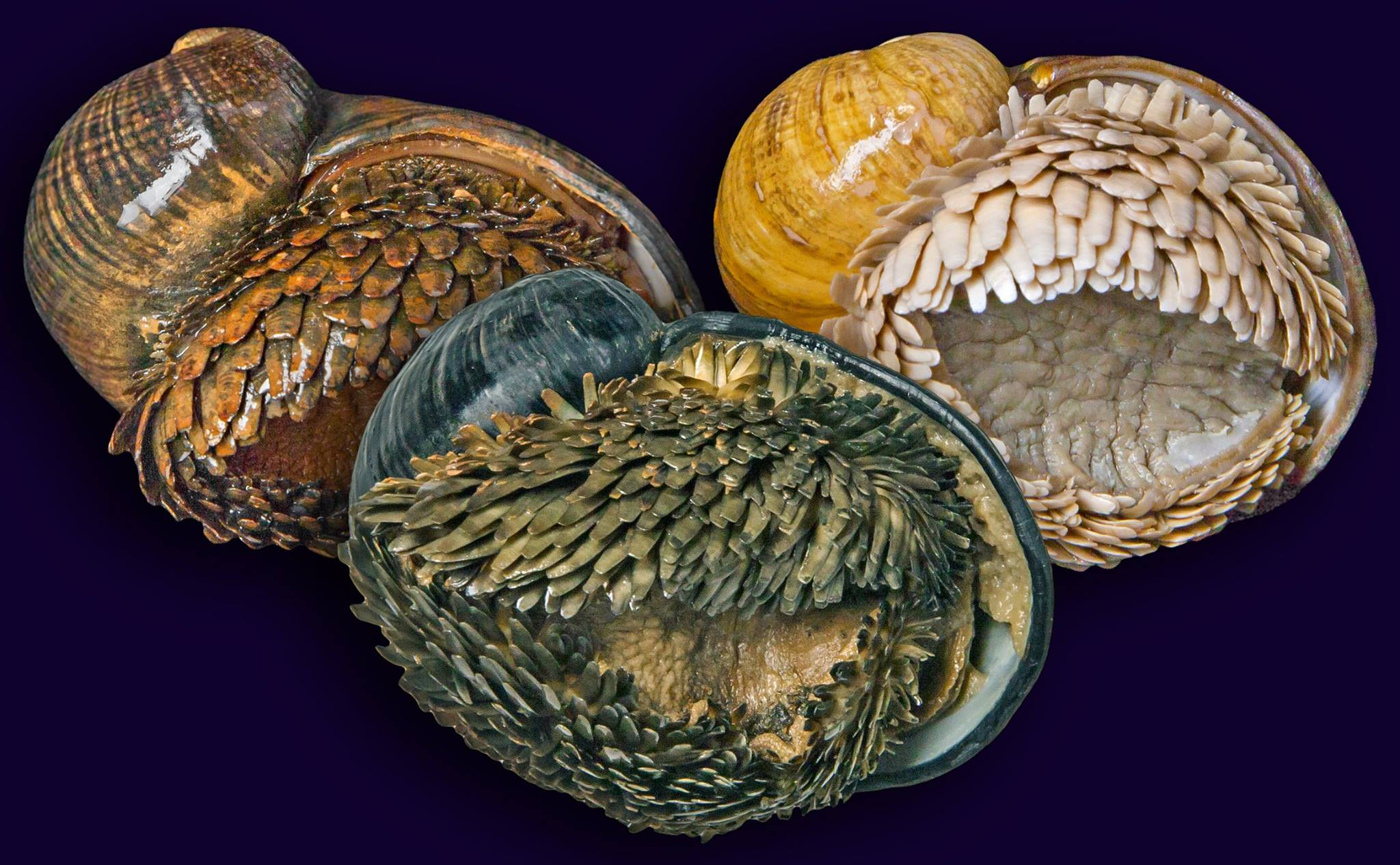 Left to right: -2450m, Kairei vent field (25°19.239S, 70°02.429E), Central Indian Ridge; -2785m, Longqi vent field (37°47.03'S, 49°38.97'E), Southwest Indian Ridge (Type locality); -2606m, Solitaire vent field (19°33.413S, 65°50.888E), Central Indian Ridge, Mauritius.